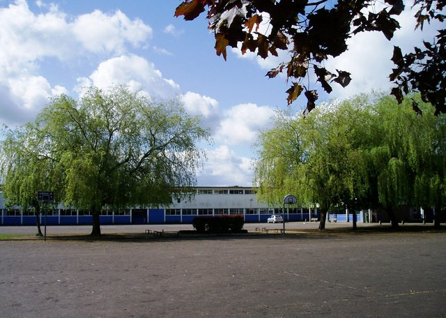 Wellacre Technology and Vocational College The sunshine on the college and the willow trees make an attractive view of the 1955 building.